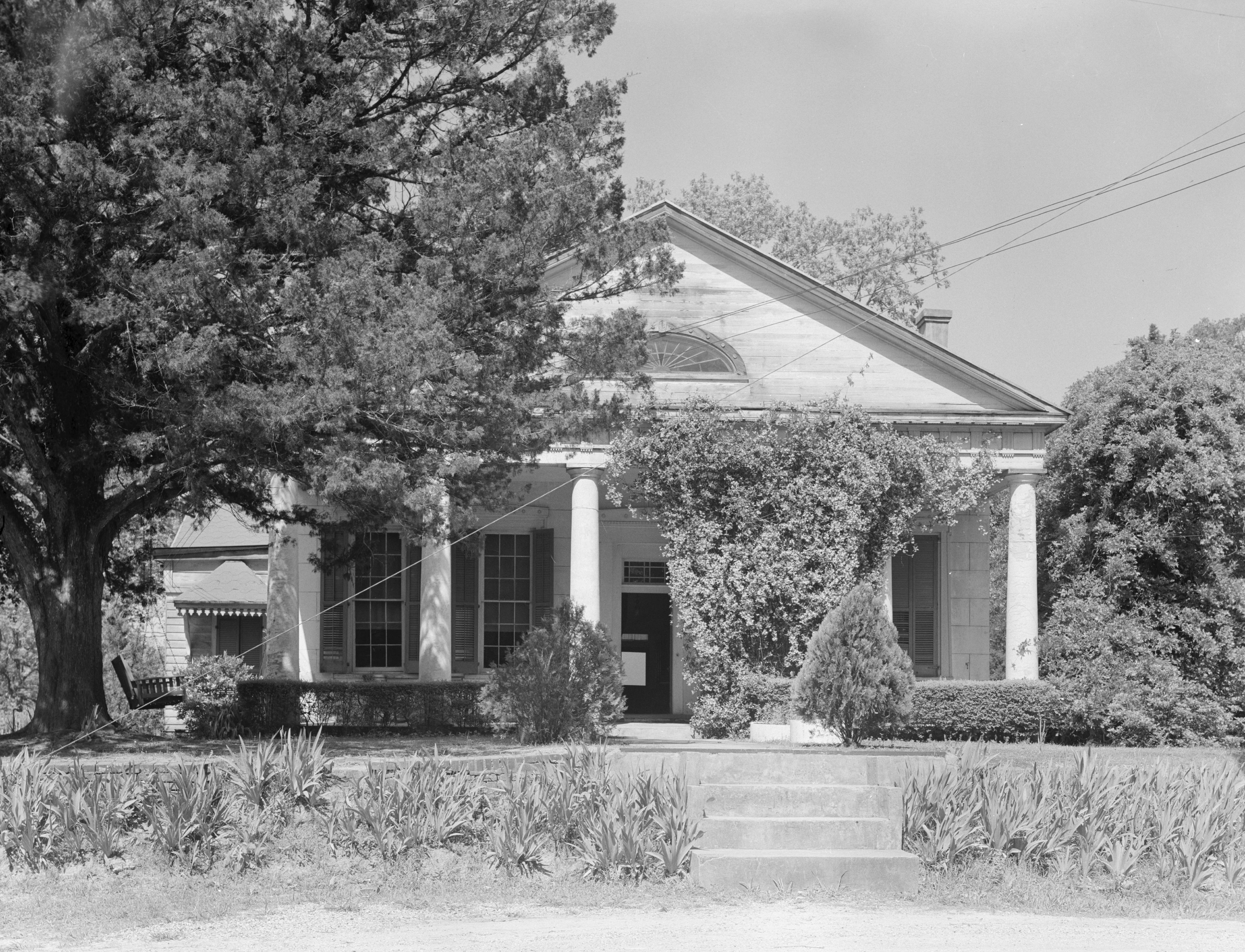 Front of the Brame-Bennett House, located along Plank Road near the Taylor Street intersection in Clinton, Louisiana, United States. Built in 1839, it is listed on the National Register of Historic Places.